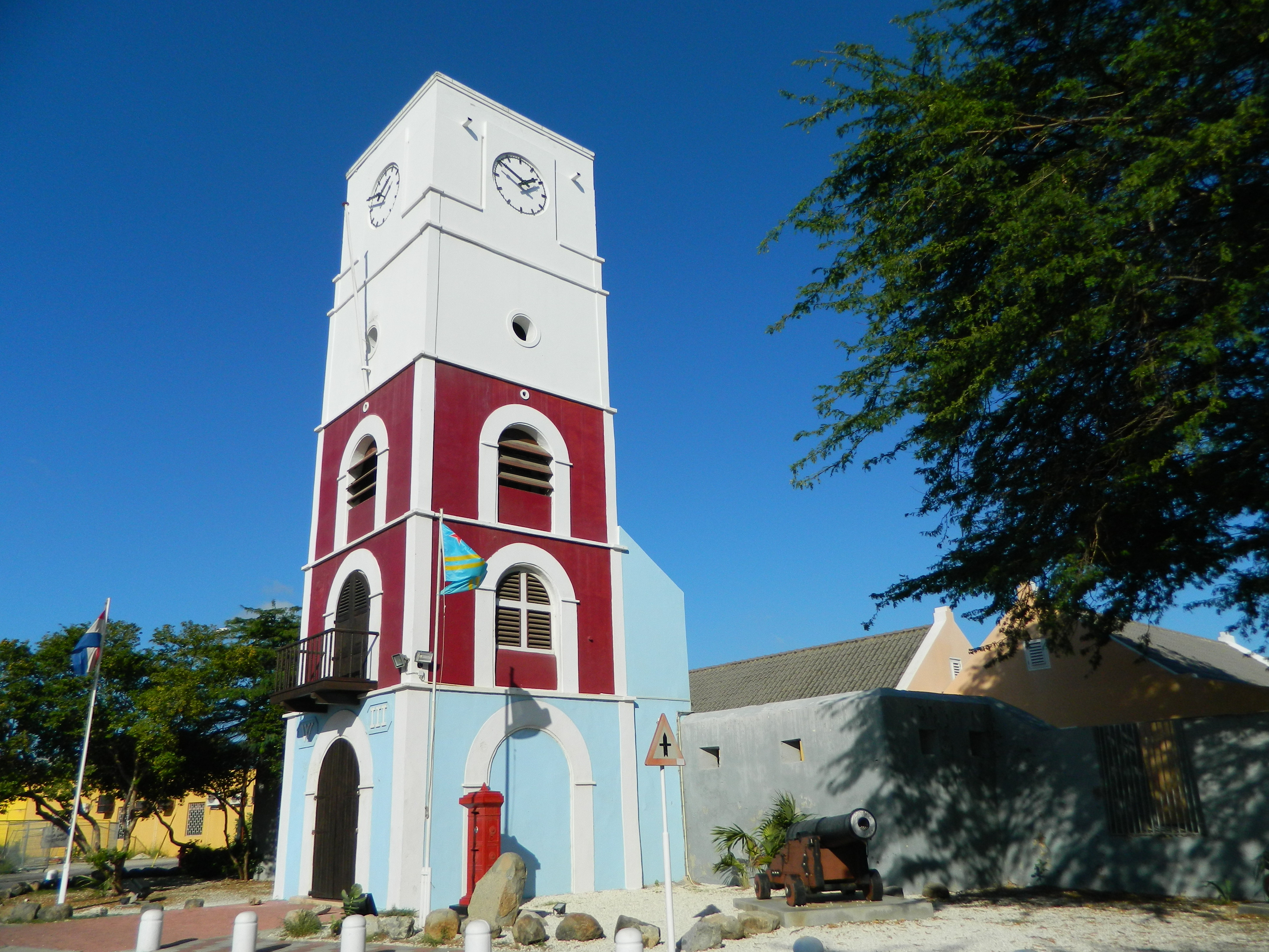 Willem III Toren, Fort Zoutman, Oranjestad, ARUBA